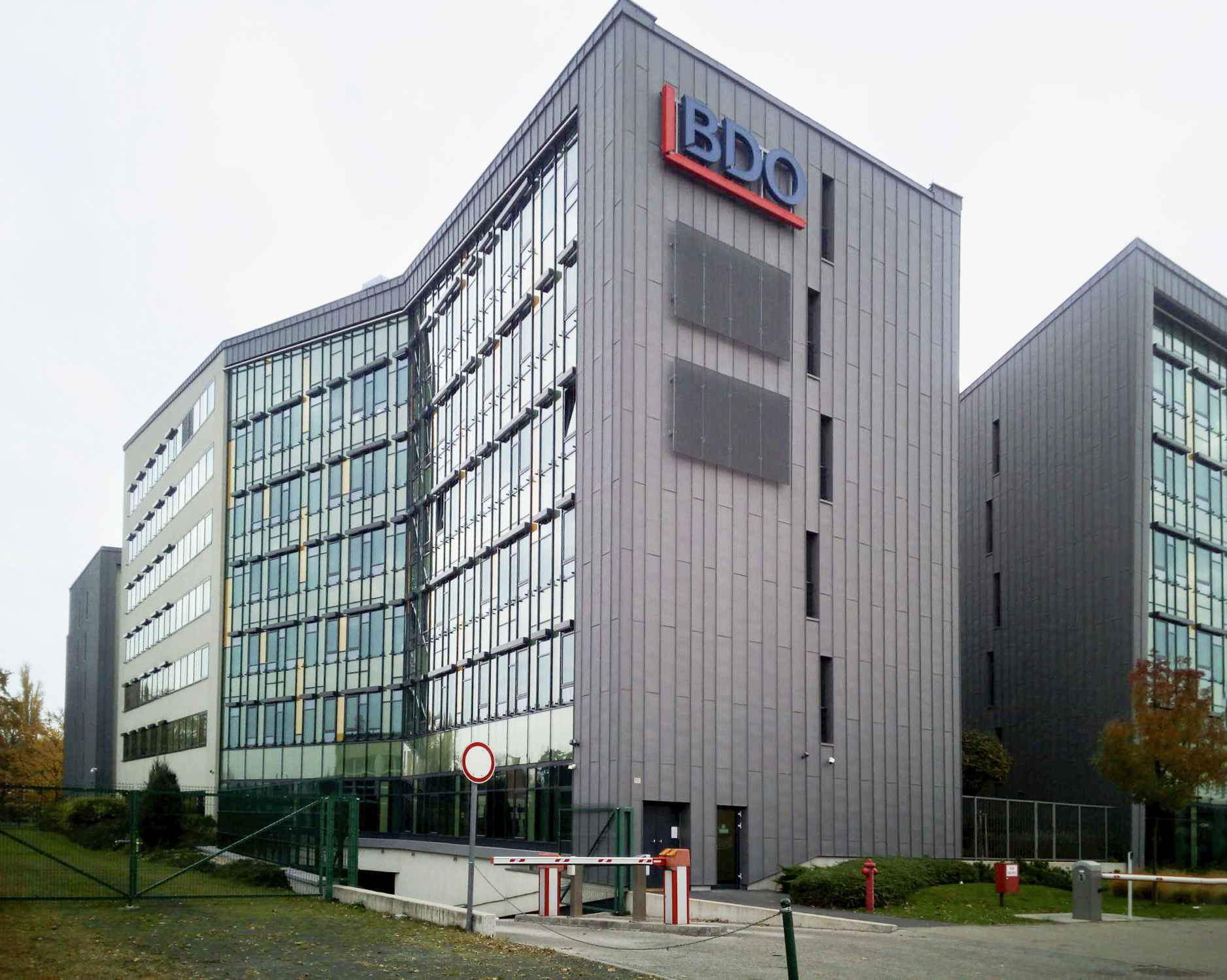 Laurus Offices Building B, the head office of Wizz Air - X. kerület, Kőér u. 2/B, Budapest, Hungary